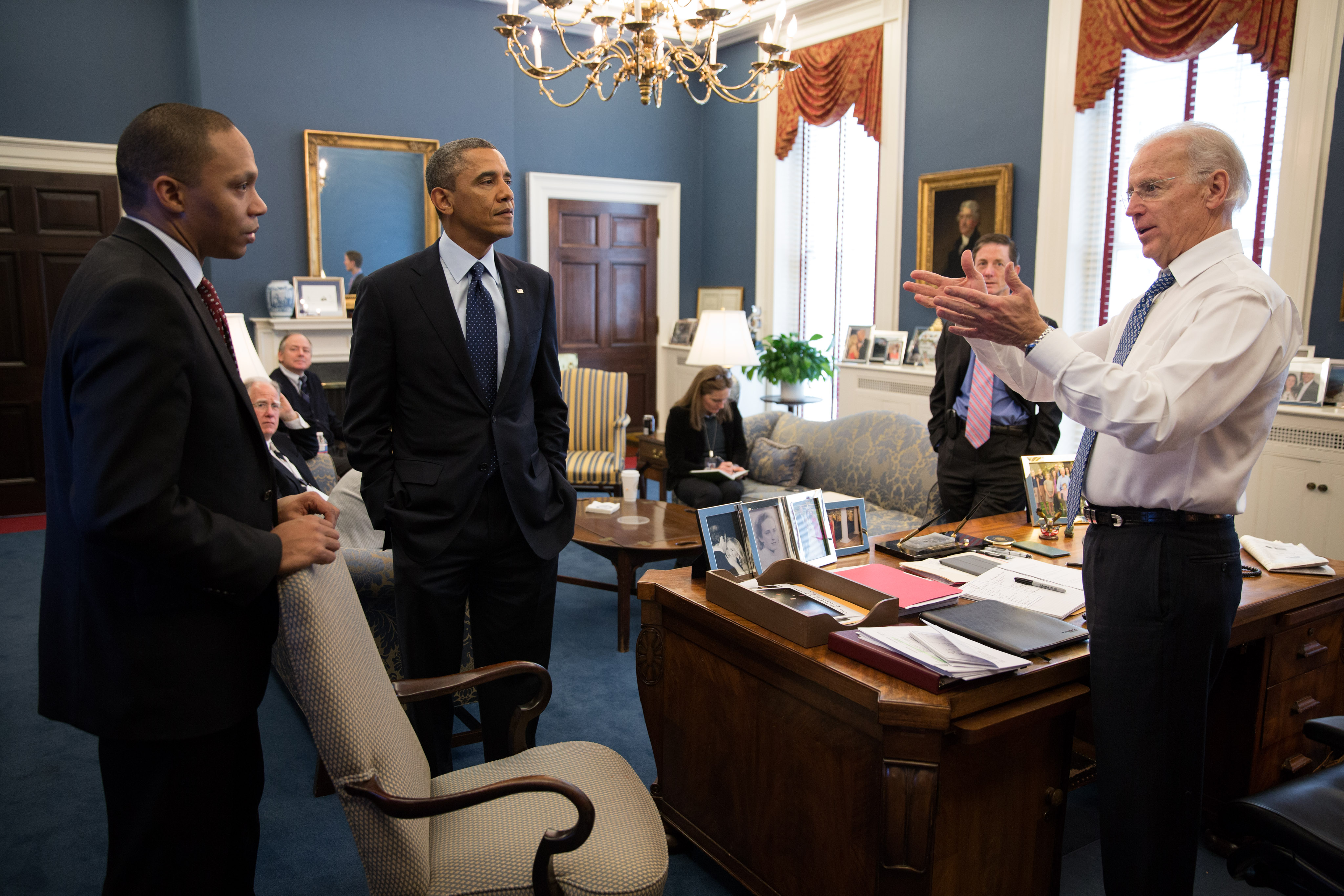 United States Vice President Joe Biden talks with President Barack Obama and Rob Nabors, Assistant to the President for Legislative Affairs, during a meeting in the Vice President's West Wing Office on 31 December 2012.